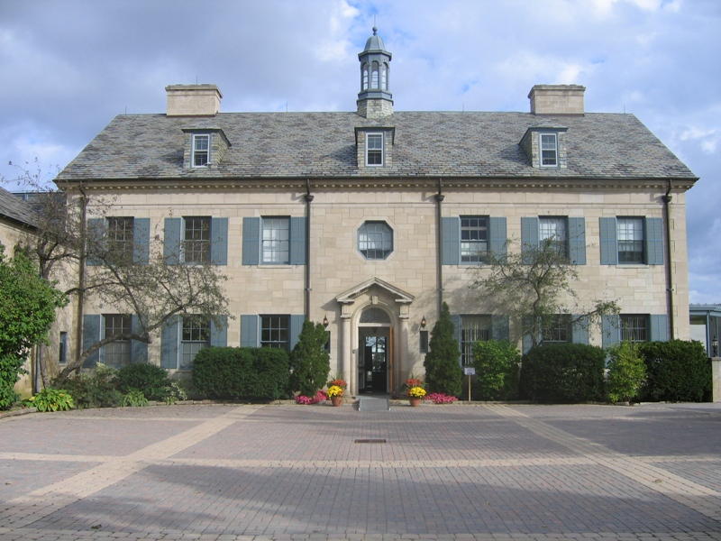 Former Frank P Wood Estate and now the Crescent School